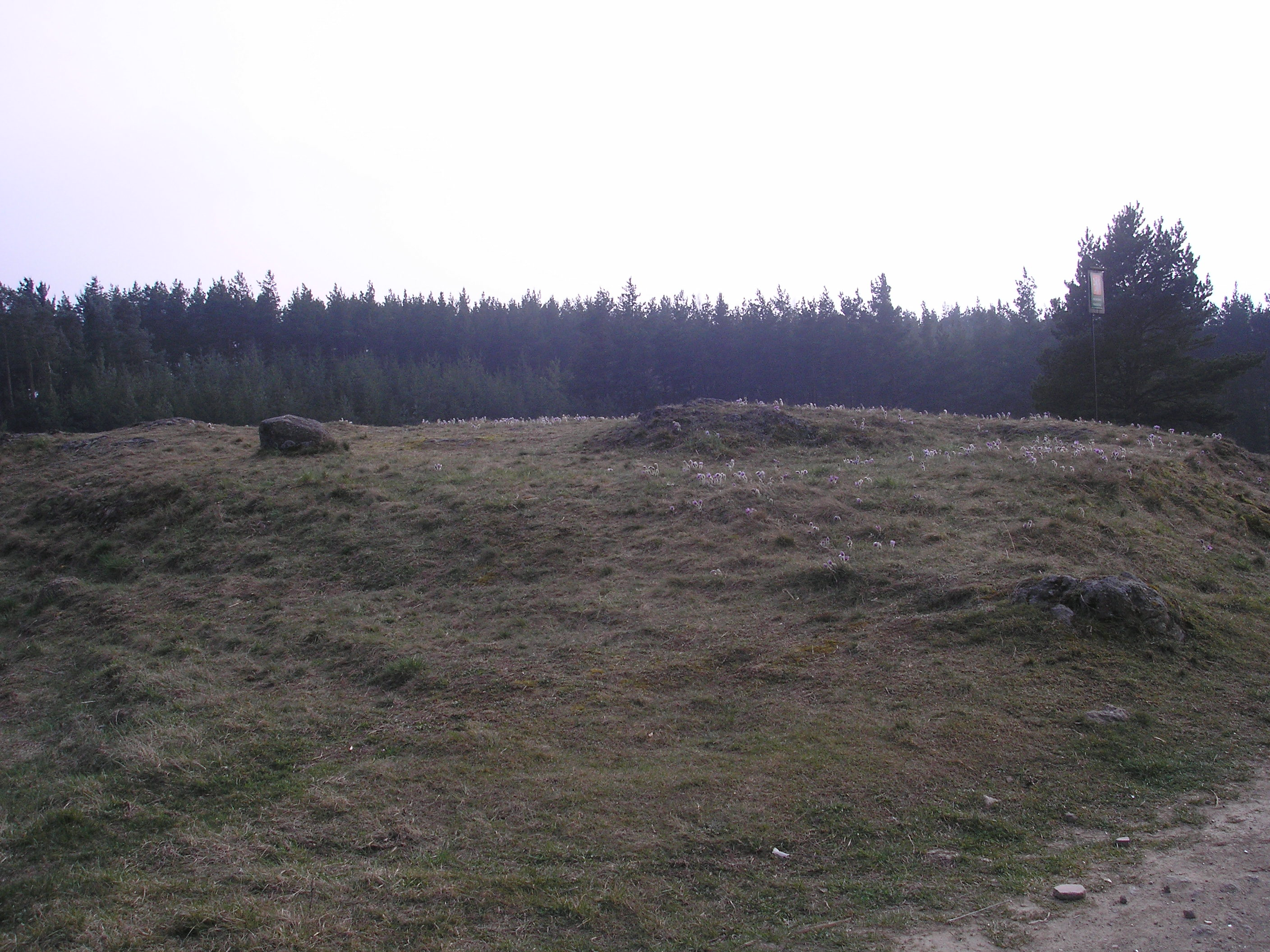 Nature monument Kobylinec near vilage Trnava, Třebíč District, Czech republic.